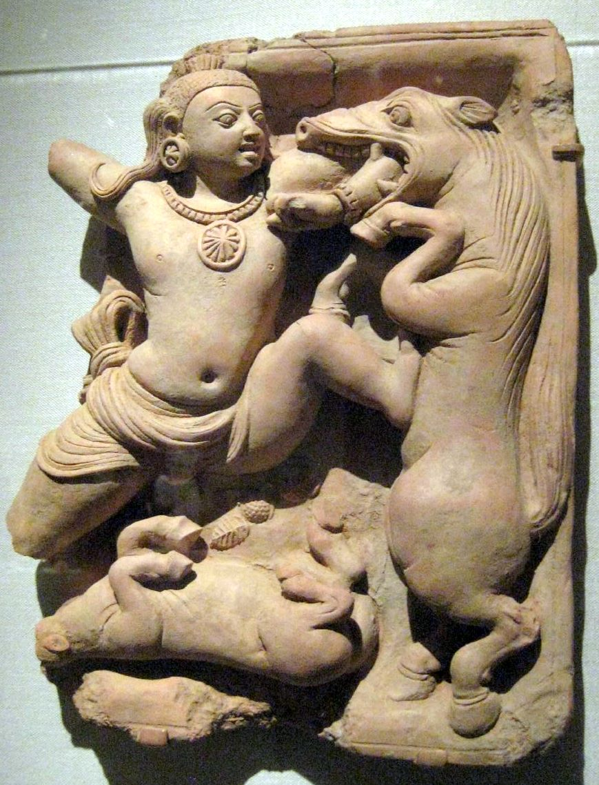 India (Uttar Pradesh), Gupta period 5th century Terracotta Item number: 1991.300 see [1]